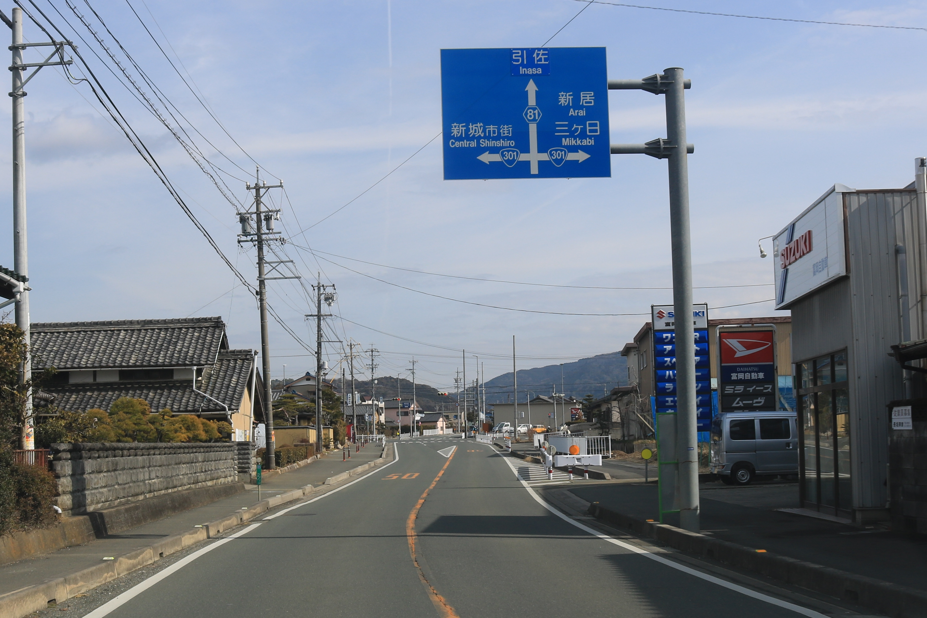 Aichi Prefectural Road Route 81 and Route 301 in Tomioka, Shinshiro, Aichi Prefecture, Japan. Canon EOS Kiss X8i